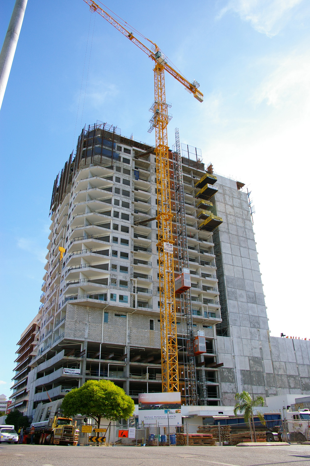 Outrigger Pandanas during construction. Darwin NT